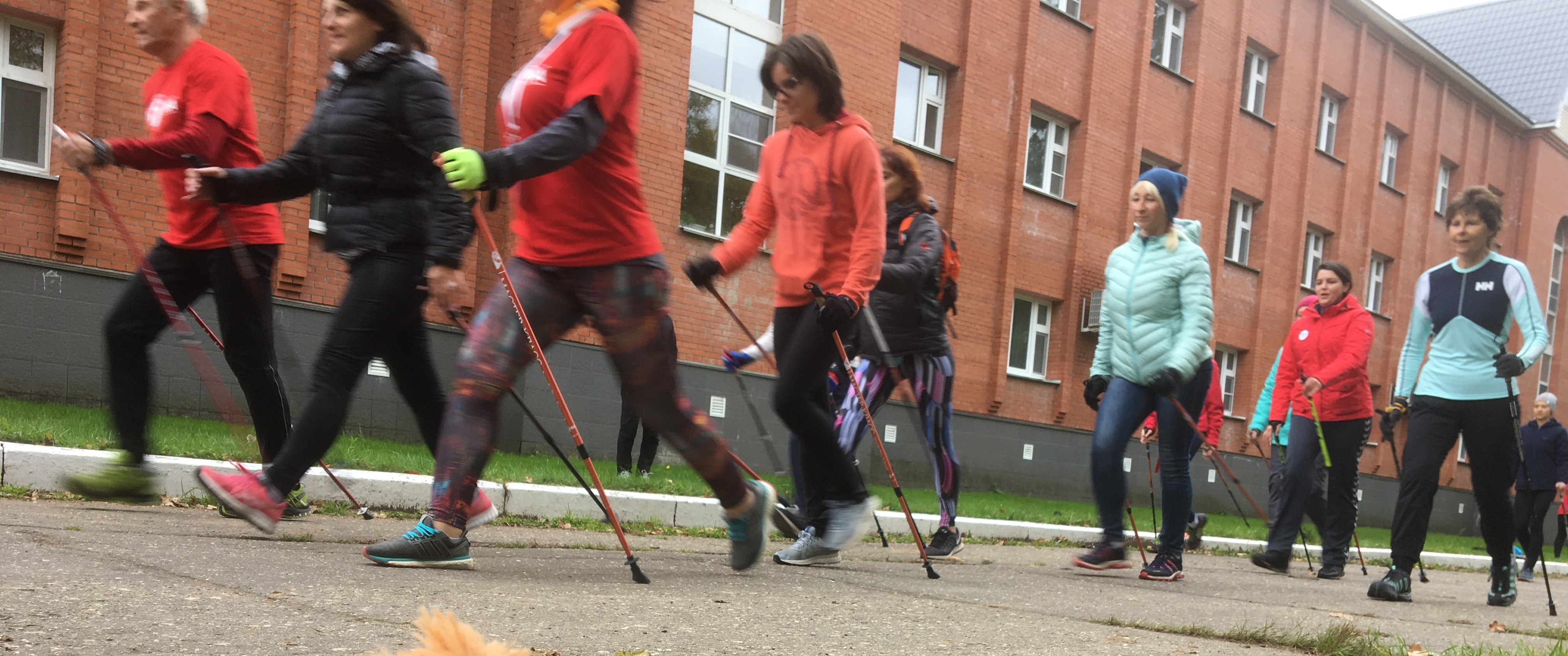 Nordic Walking is enjoyed by all